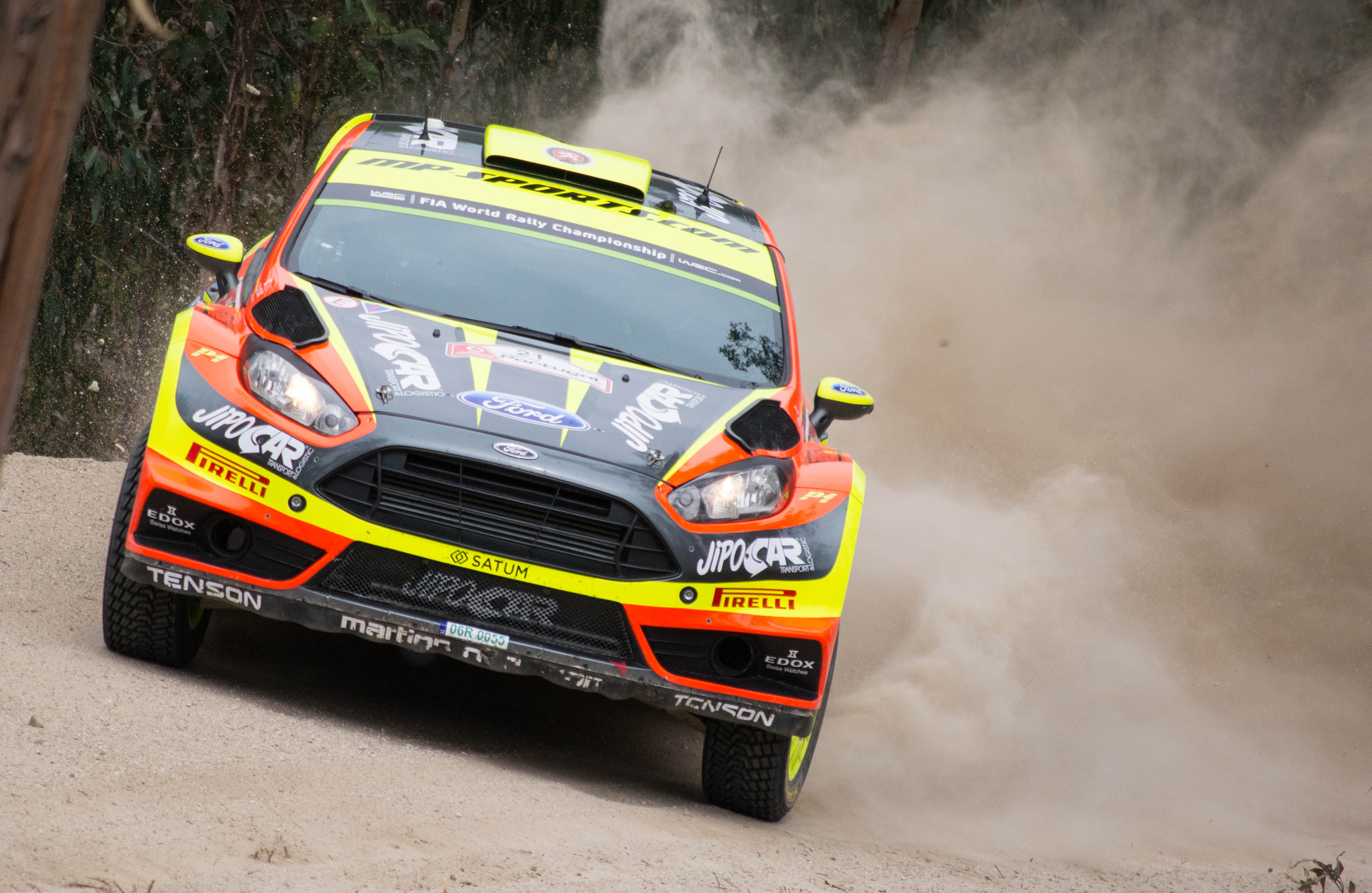 Rally of Portugal 2016. Section of "Amarante", on the first pass